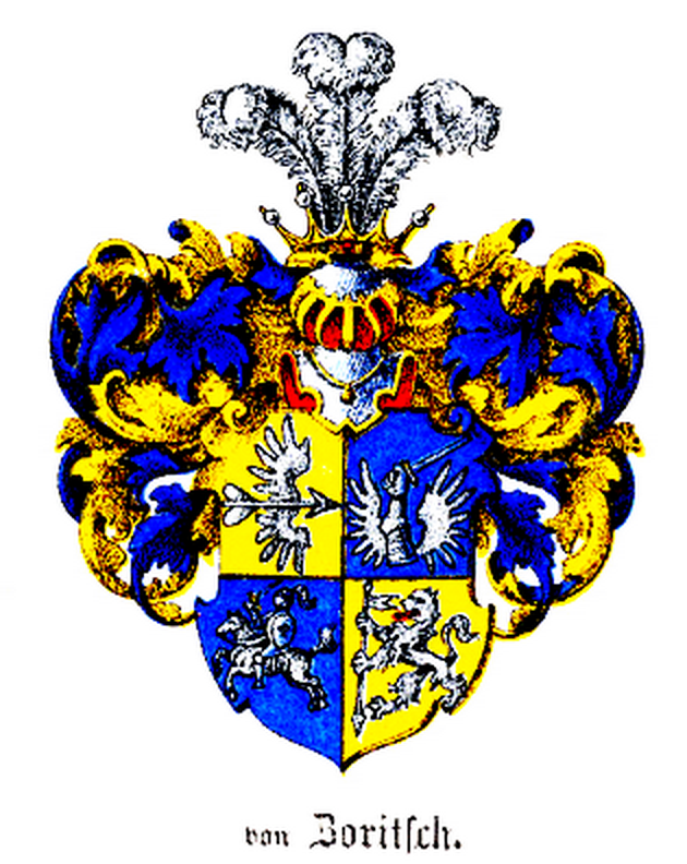 Coat of Arms of Zorisch family